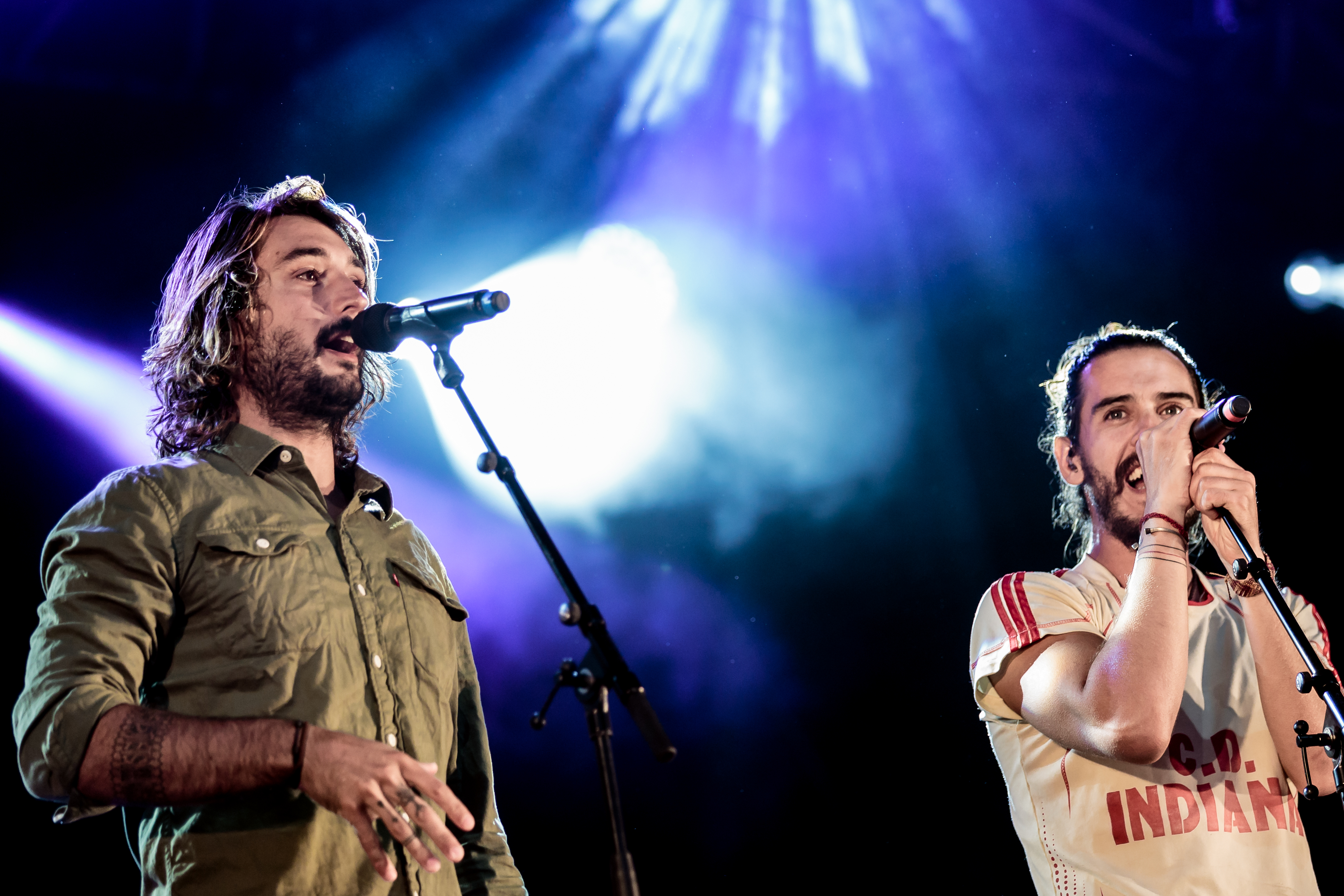 Fréro Delavega in concert during Buguélès Festival (in Brittany, July 30, 2016).